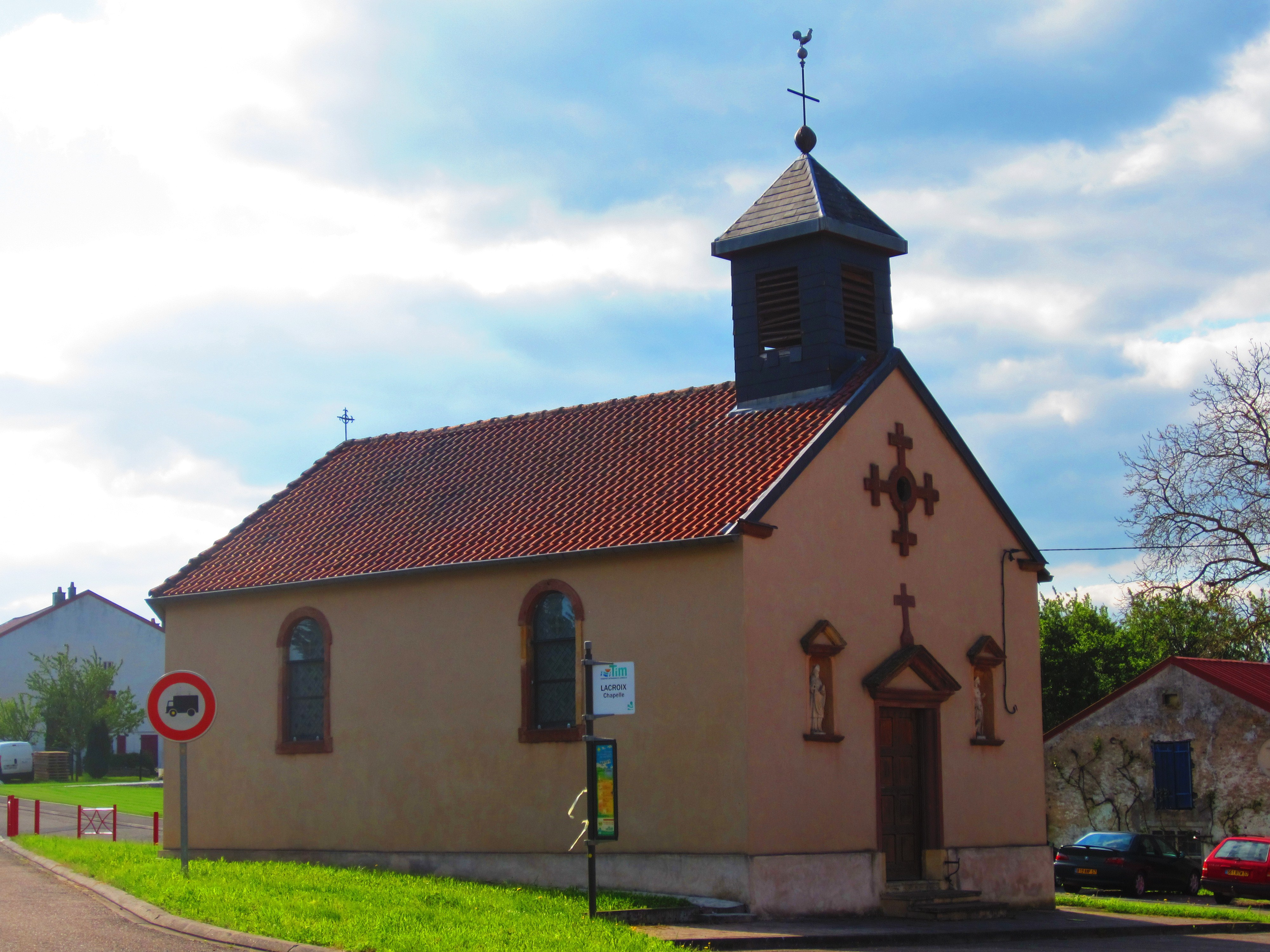 Lacroix Moselle chapel